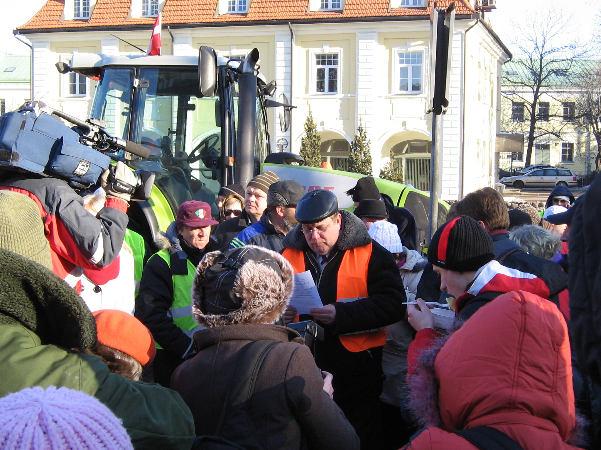 Farmers piquet in Riga